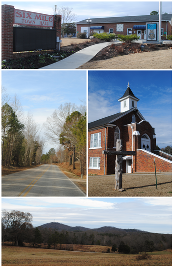 Photos I took around Six Mile, SC